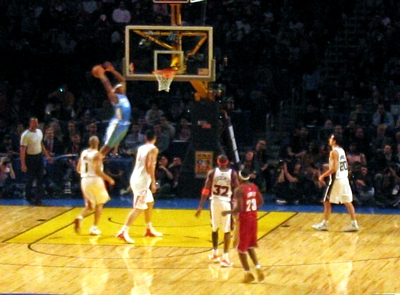 Carmelo Anthony of the Rookies Team receives an alley-oop during the 2004 got milk? Rookie Challenge game at the Staples Center.The photograph was taken with a Canon PowerShot A70 camera and edited (color balance, brightness, contrast) using ArcSoft PhotoStudio 5.5